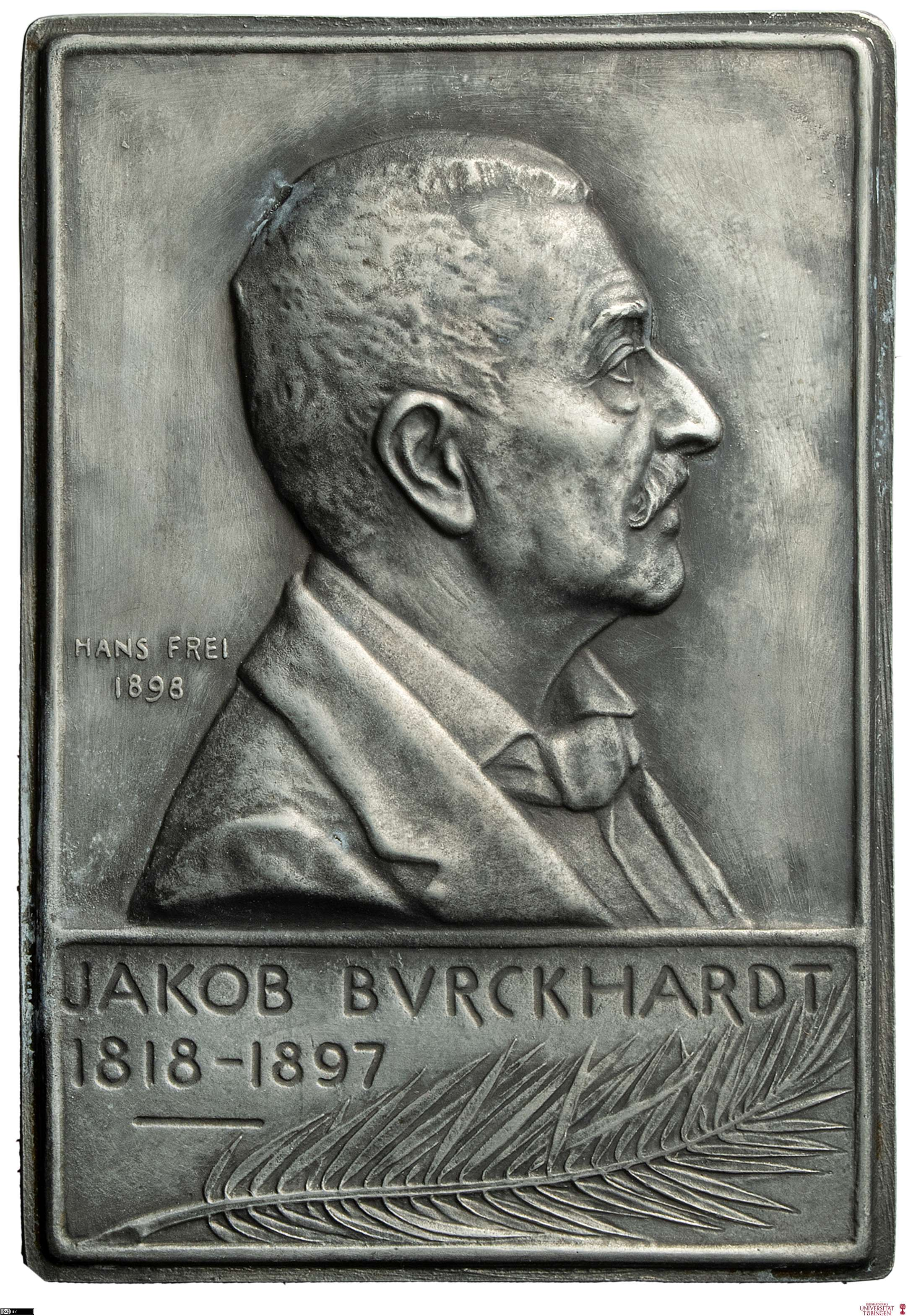 Plaque showing the bust of the Swiss art historian Jakob Burckhardt. To the left signed by the engraver: HANS FREI 1898. Below are given year of birth and death and name of Burckhardt accompanied by a palm leaf.